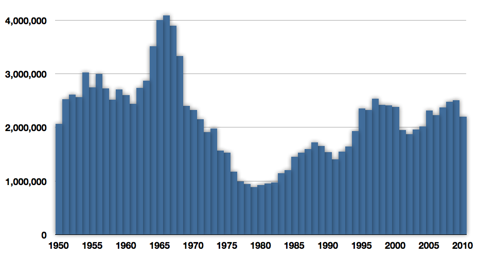 Global fisheries capture of the Atlantic herring, Clupea harengus, from 1950 to 2010 as reported by the FAO. Data source FAO fisheries